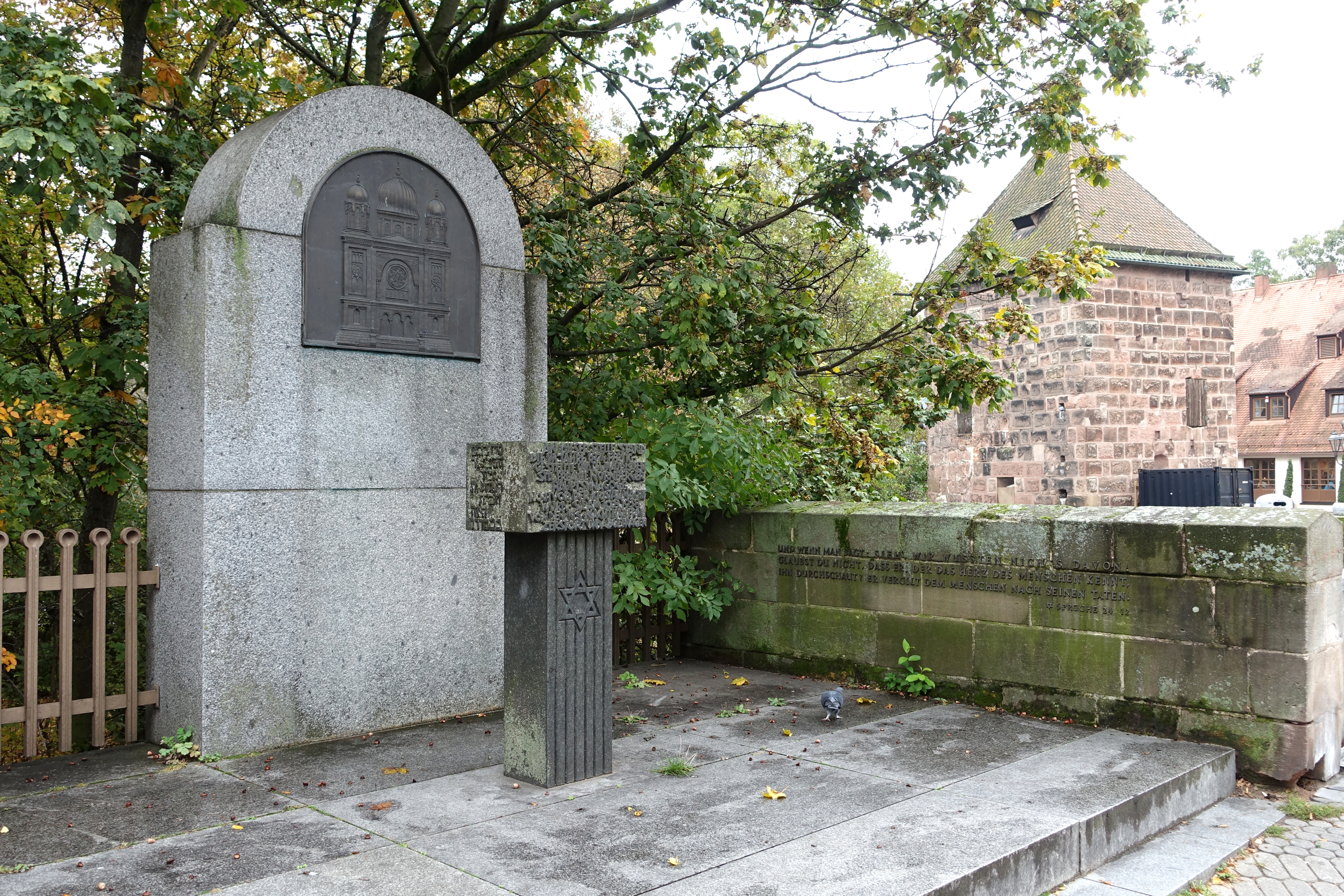 Synagogenmahnmal - Nuremberg, Germany.